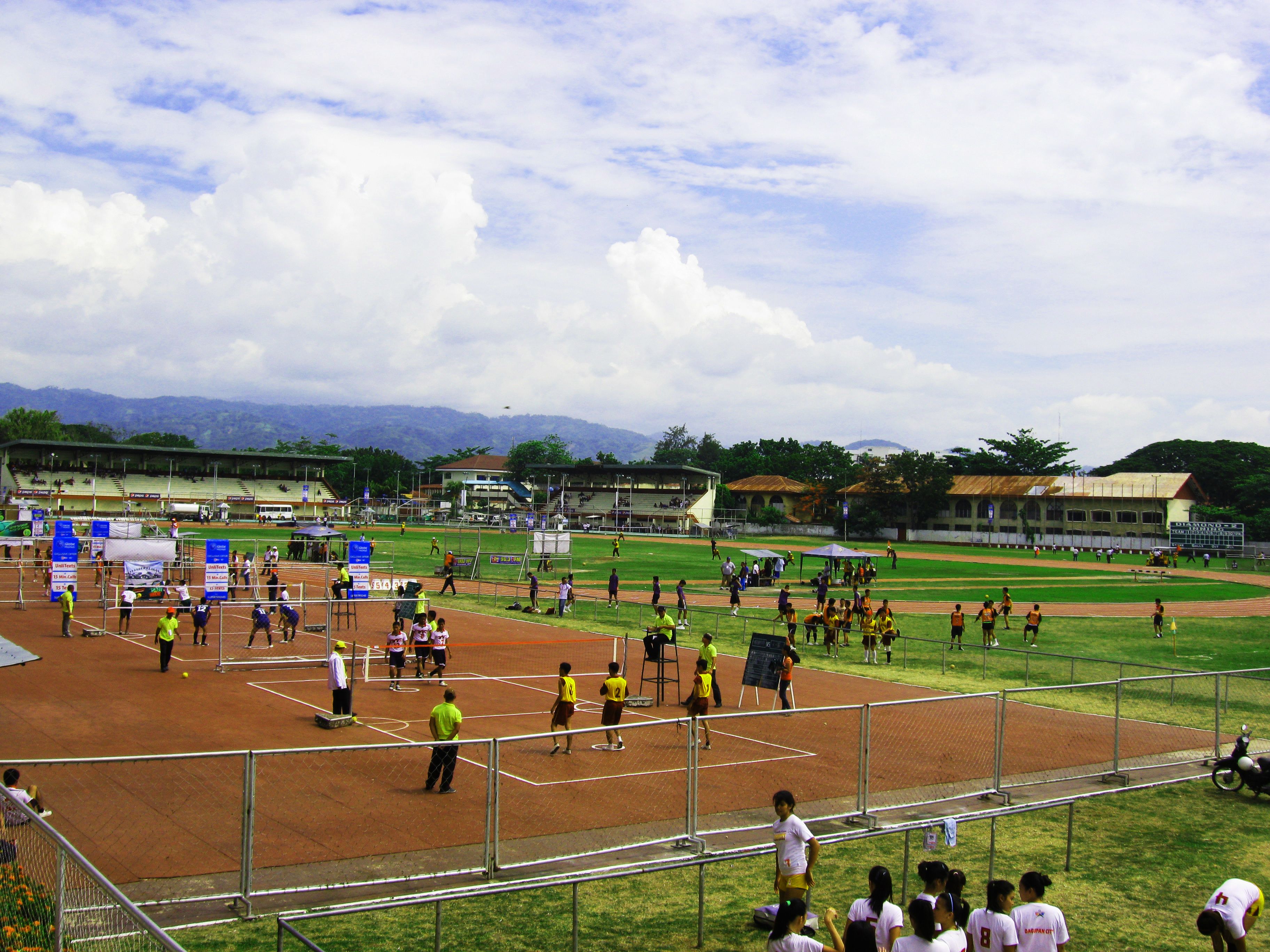 Joaquin F. Enriquez Memorial Stadium Area during PRISSA 2011